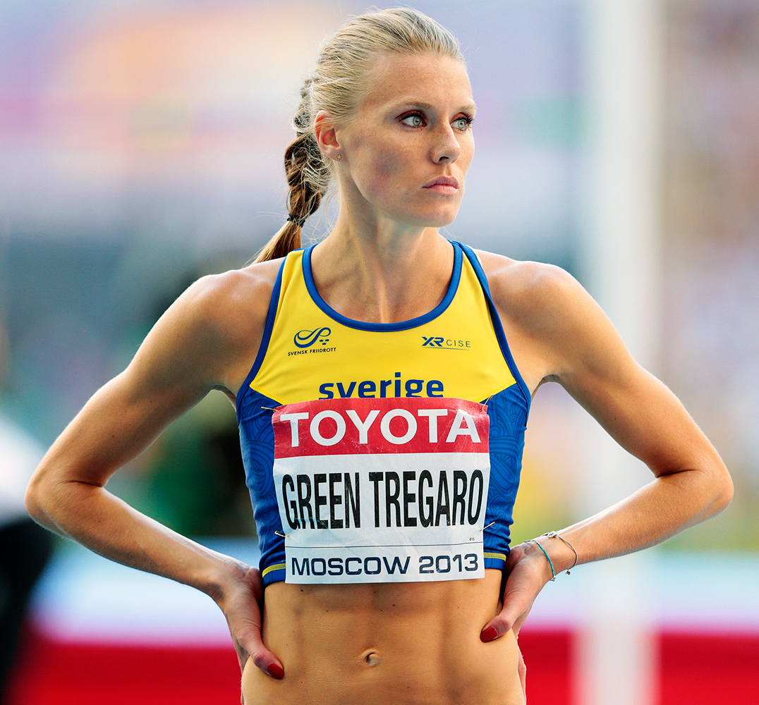 Emma Green-Tregaro on 14th IAAF World Championships in Athletics